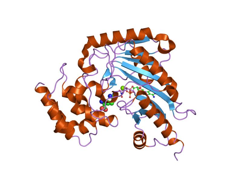 Cartoon representation of the molecular structure of protein registered with 1sd0 code.